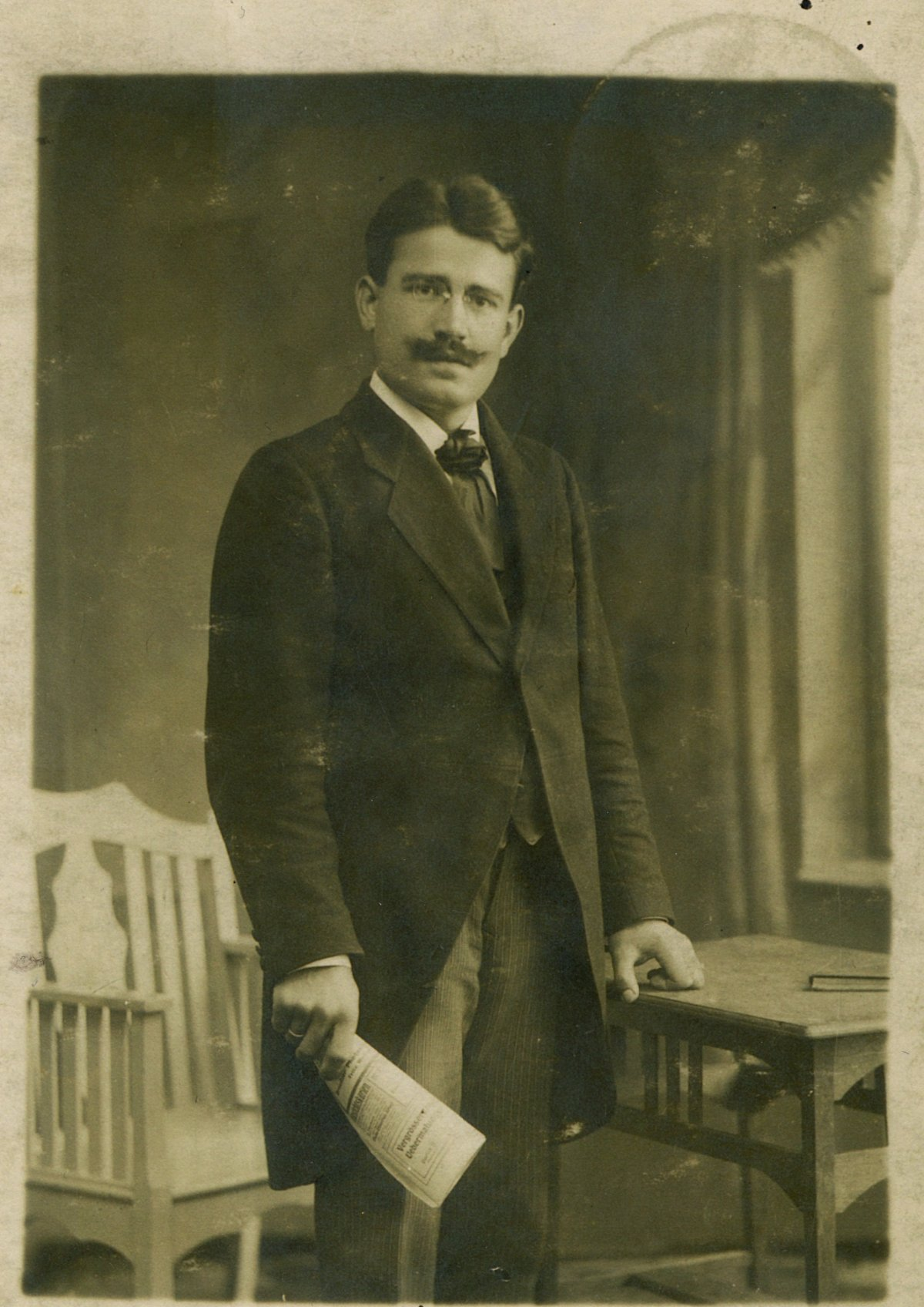 Karl Artelt in April 1917 when he was tried by the extra ordinary court martial in Kiel; the photo was sent as post card on 2 November 1917 from the fortress prison Groß-Strehlitz to his brother in law Walter Heinke in Magdeburg-Salbke